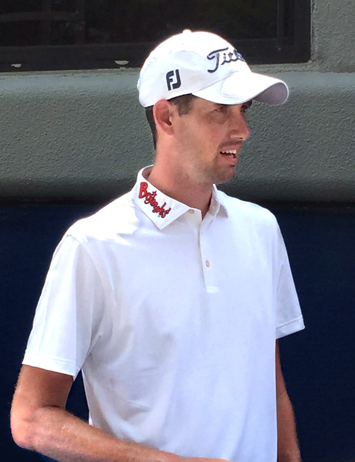 Shot of Chesson Hadley at the Wyndham Championship in 2018 after completing his first round of the tournament.